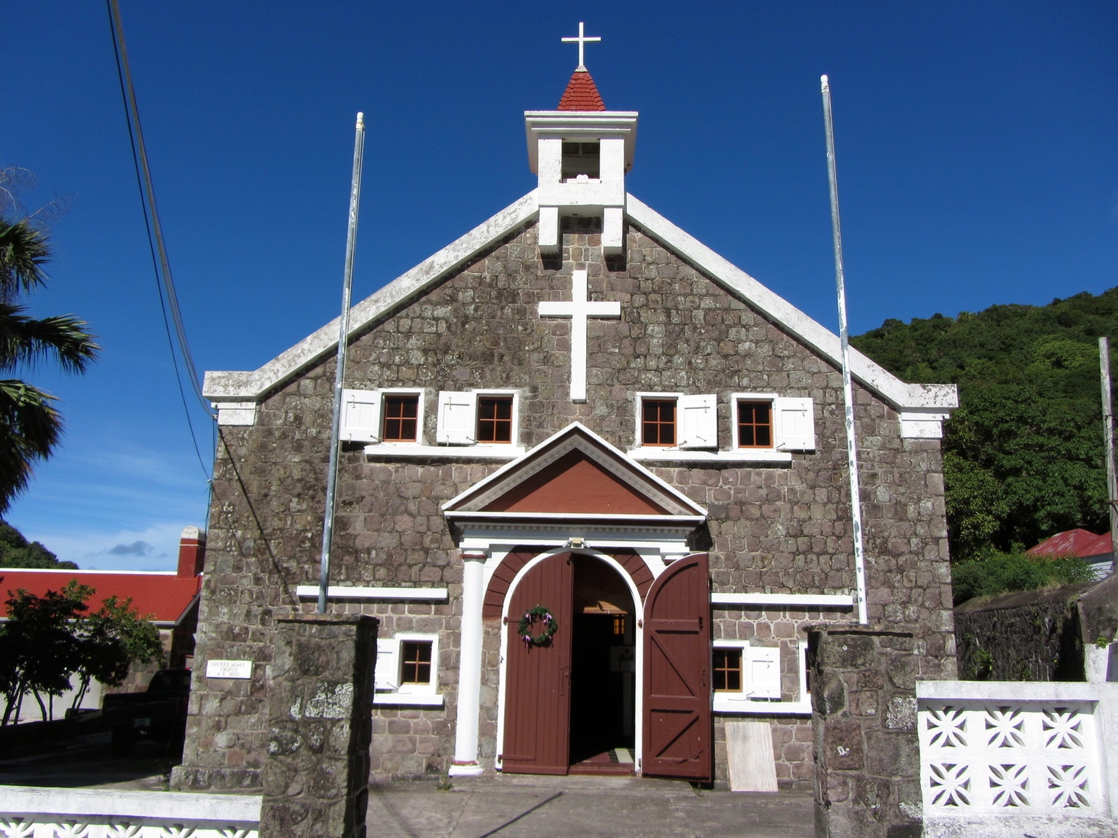 Sacred Heart Church, 1935 Horizontal